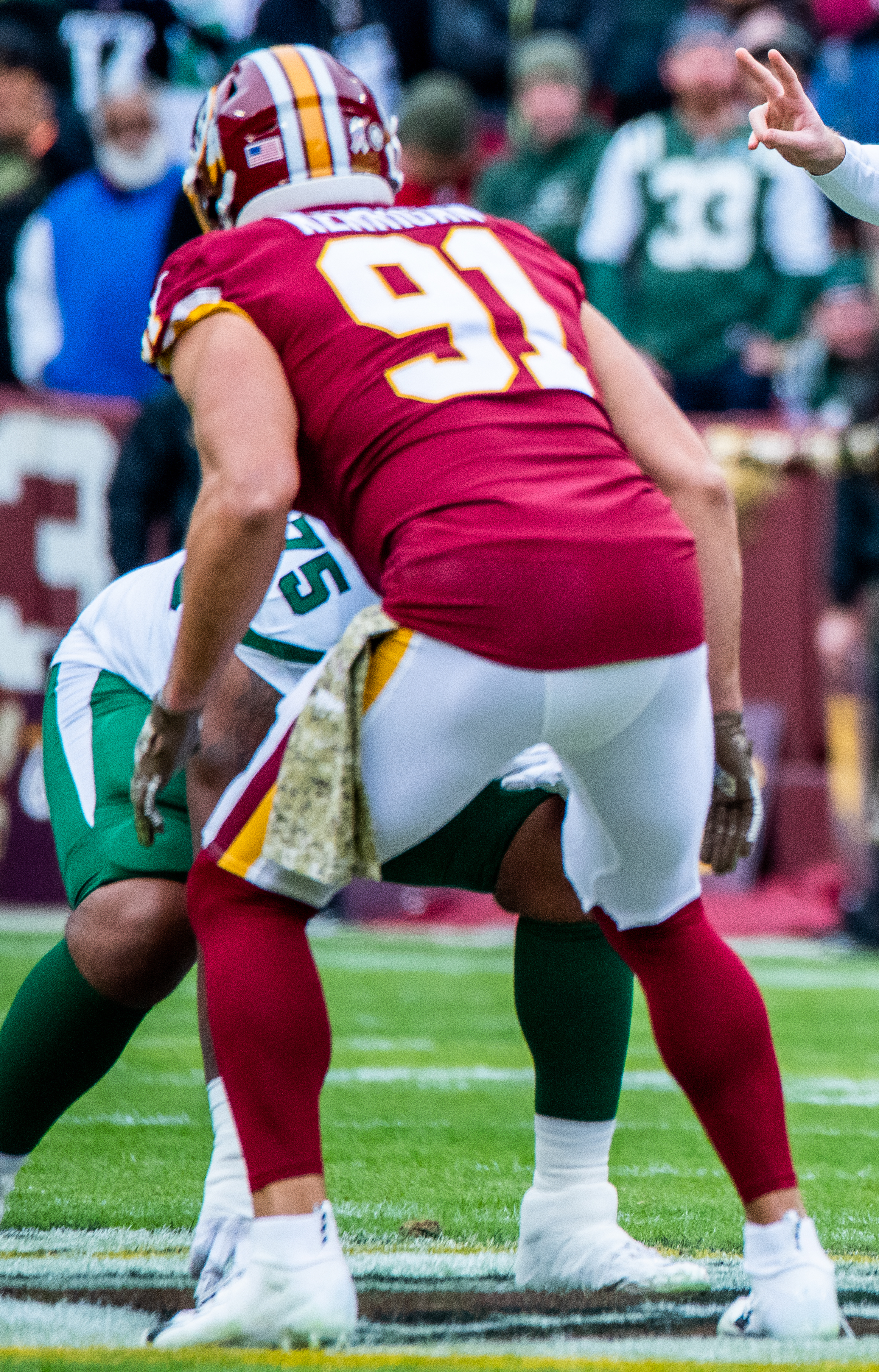 In 2019